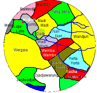 This is a map of the area of various Australian Aboriginal Tribes In the Riverina region of along the Victorian NSW border.